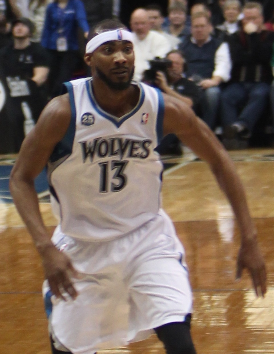 Corey Brewer at the Target Center